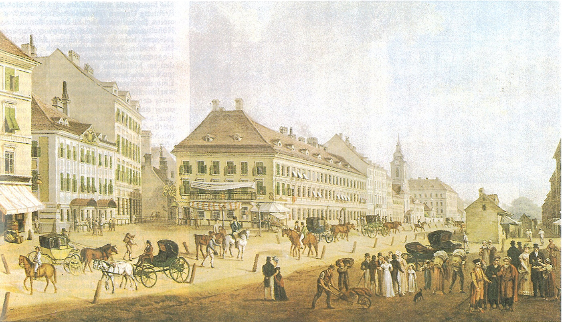 The "Jaegerzeile" in Vienna, view to the "Praterstrasse" Painting by F. Scheyerer, 1824